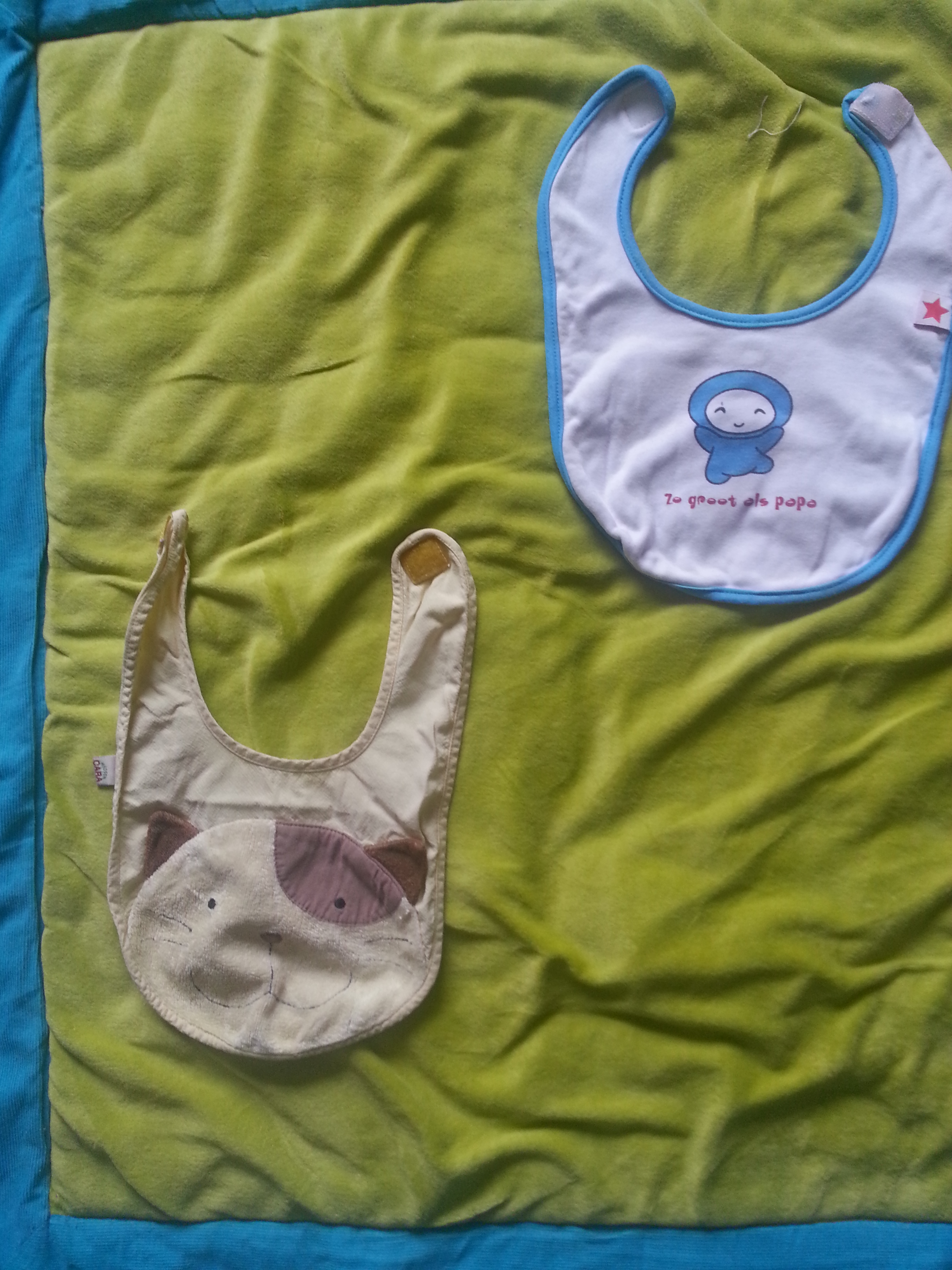 Two bibs